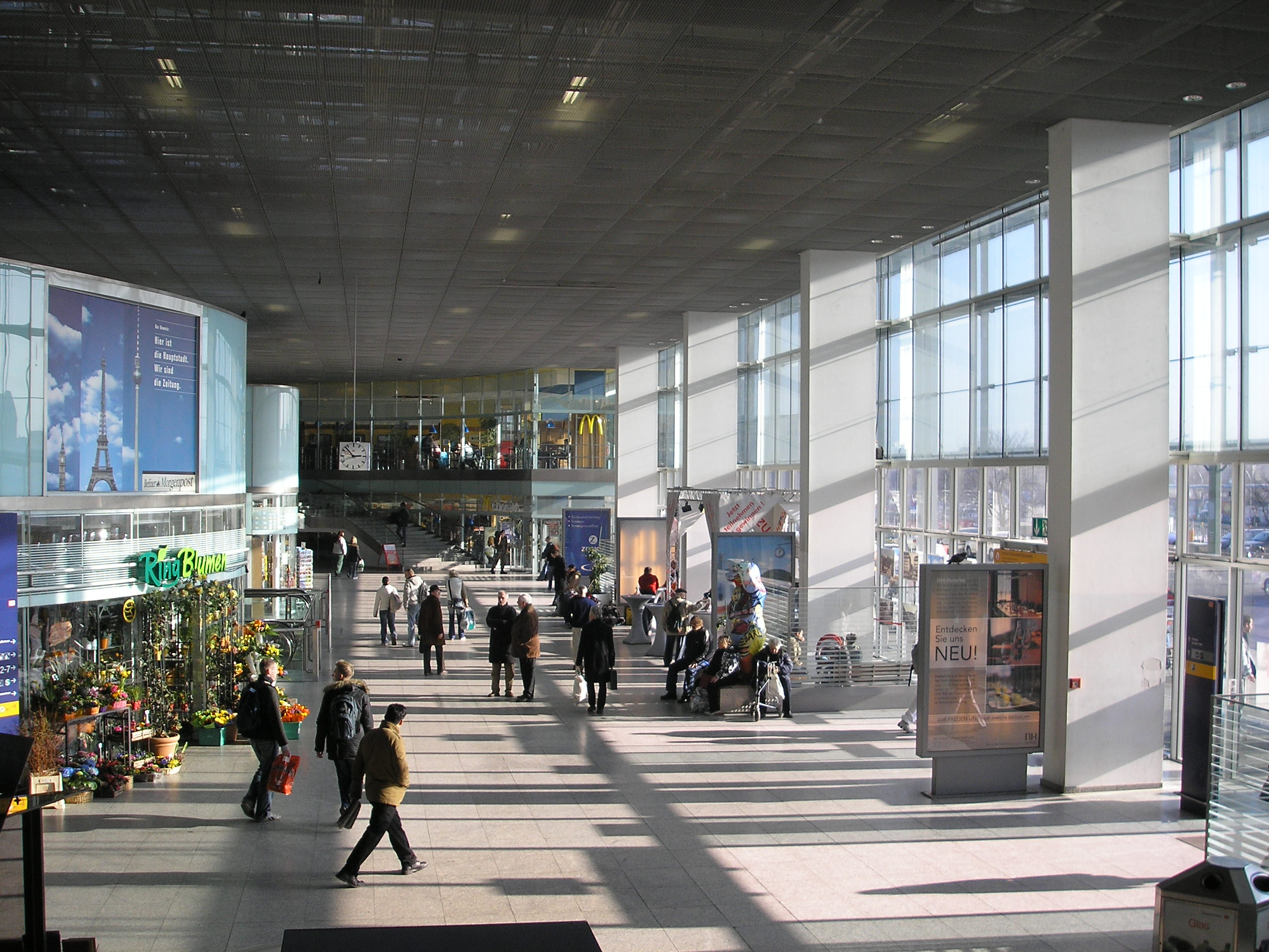 Description: Interior view of main hall at Ostbahnhof, Berlin. Source: self-made, I release it into the public domain.